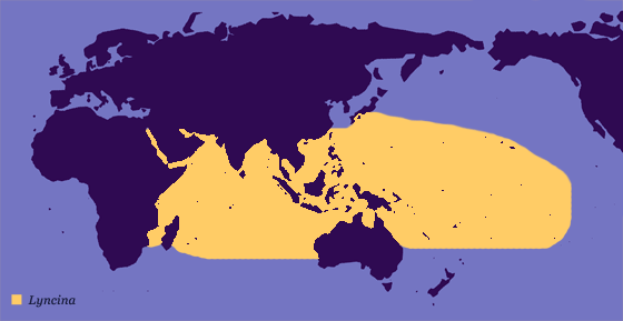 Range of Lyncina (Cowry)